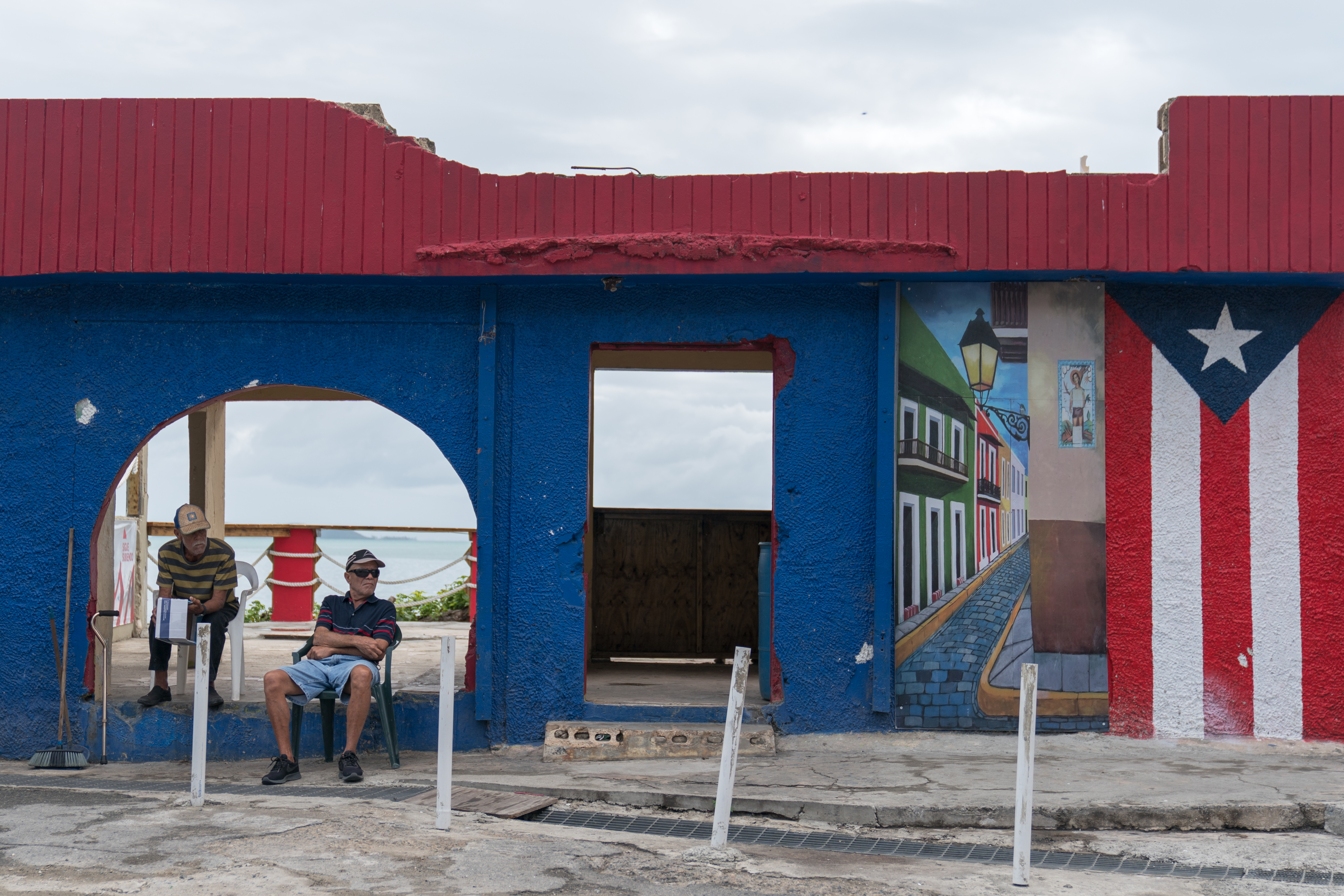 Waiting by the side of the road in Puerto Rico